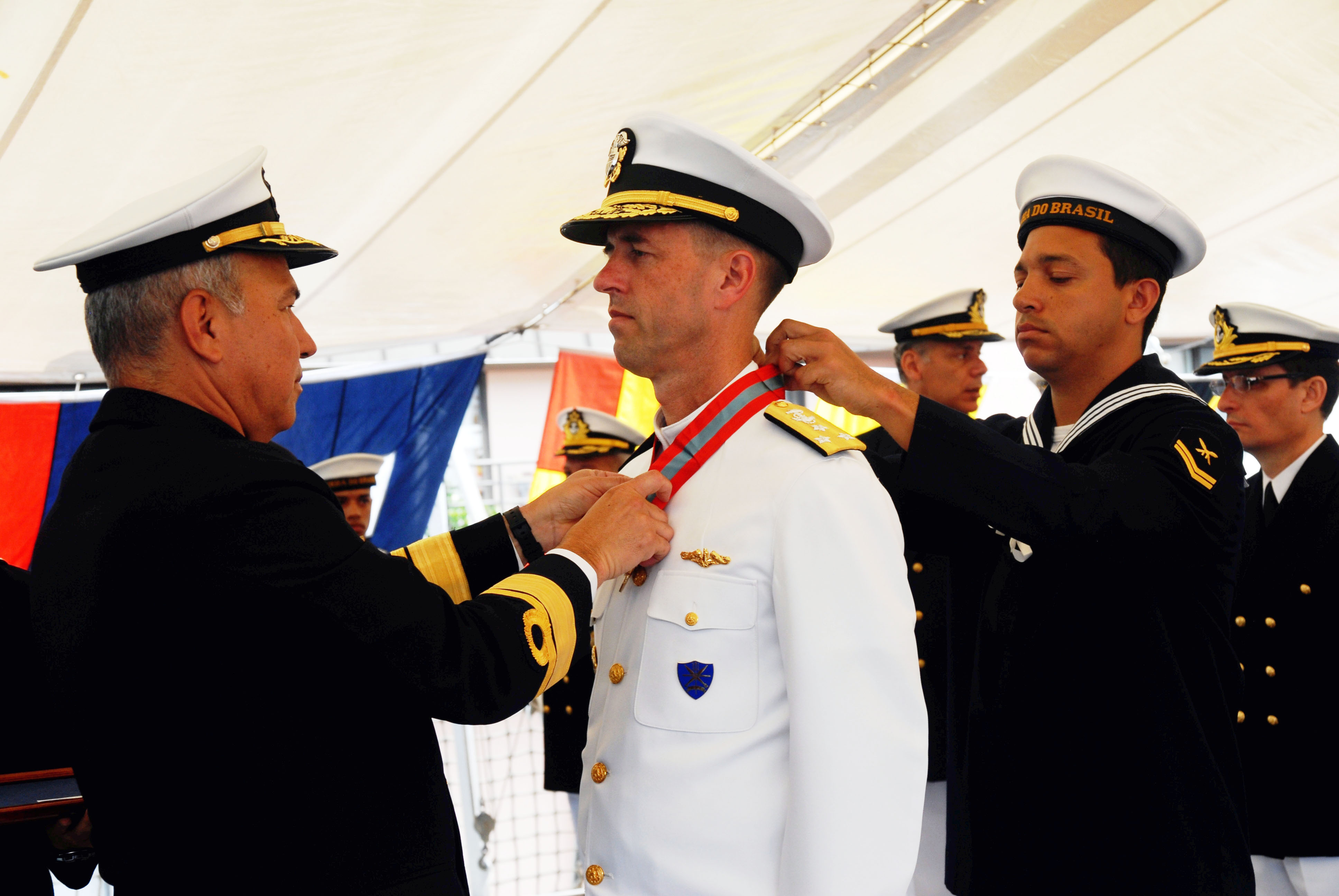 NORFOLK (June 11, 2012) Brazilian Naval Attache Rear Adm. Celso Luiz Nazareth, left, presents Vice Adm. John M. Richardson, Commander, Submarine Forces, the Brazilian Order of Naval Merit medal aboard the Brazilian navy frigate BNS Independencia (F44). Richardson accepted the award on behalf of the U.S. Submarine Force, signifying the continued partnership between the Brazilian and U.S. Naval Submarine Forces. The Order of Naval Merit was established by the Navy of the Republic of Brazil on July 11, 1934 to honor distinguished civil, national, and foreign naval service to Brazil. (U.S. Navy photo by Mass Communication Specialist 1st Class Todd A. Schaffer/Released) 120611-N-NK458-039 Join the conversation navylive.dodlive.mil